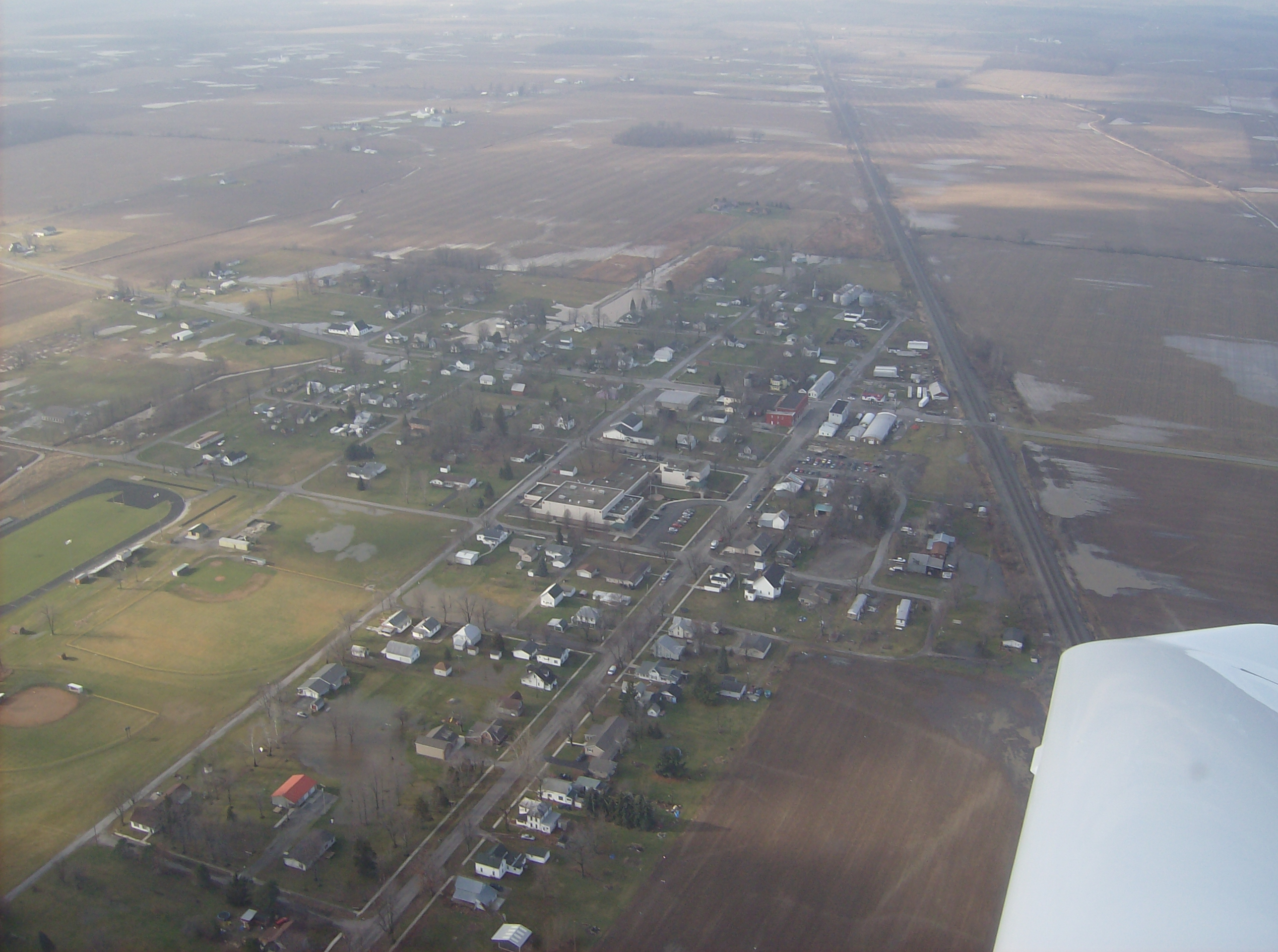 Aerial view of Ridgeway, a village in Hardin and Logan counties in the U.S. state of Ohio. Picture taken from a Diamond Eclipse light airplane at an altitude of 2,100 feet MSL and a bearing of approximately 224º.